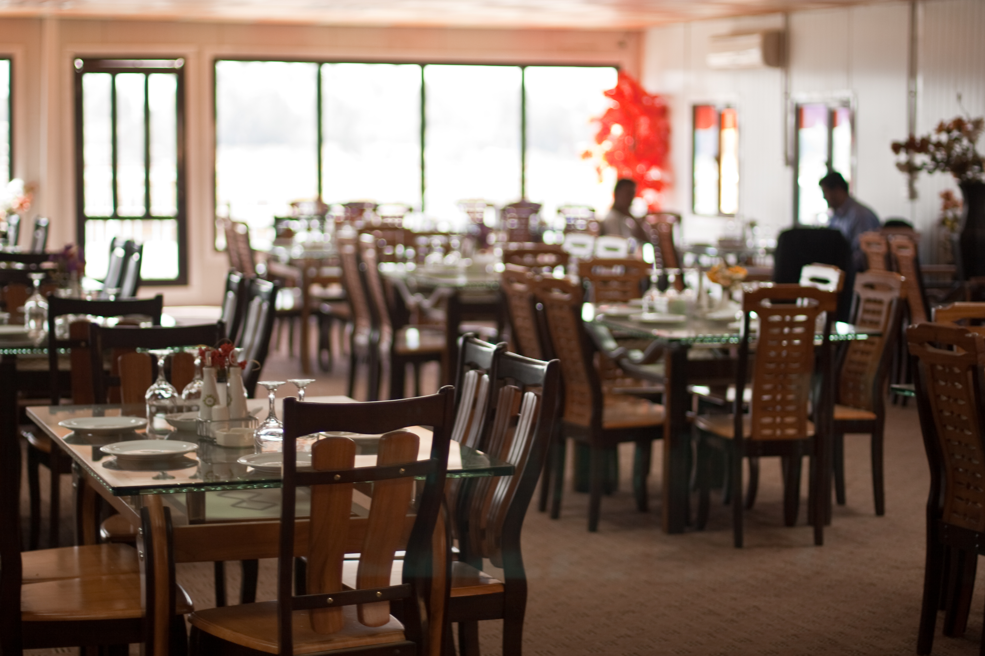 Abu Nawas Beach restaurant. Photo by Omar Chatriwala